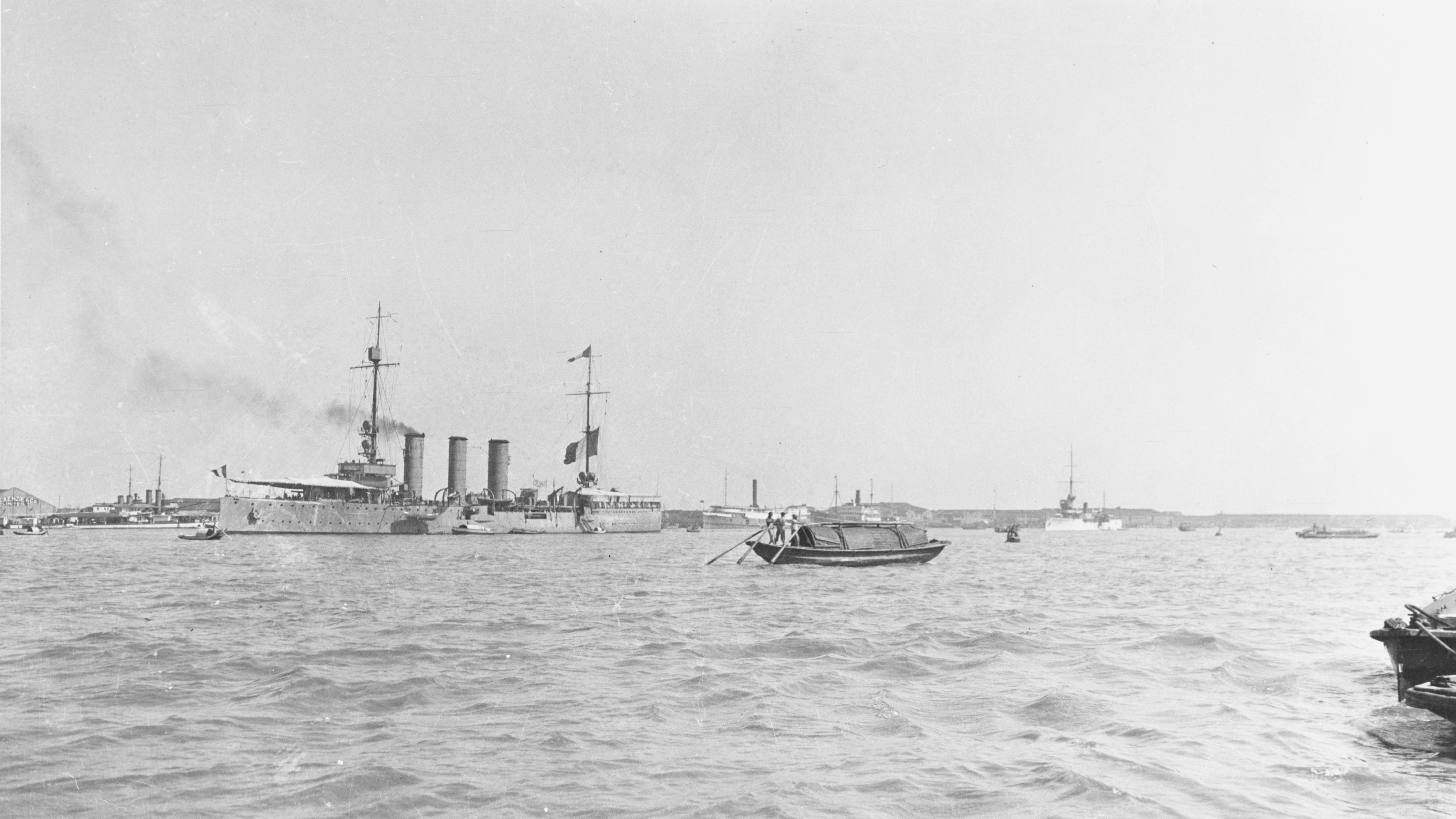 The French light cruiser Colmar off Shanghai, China, during the early 1920s. She operated as part of the Yangtze River Patrol between 1922 and 1927. Colmar was a war prize allocated to France. She was originally commissioned in the Imperial German Navy as SMS Kolberg from 1910 to 1918.